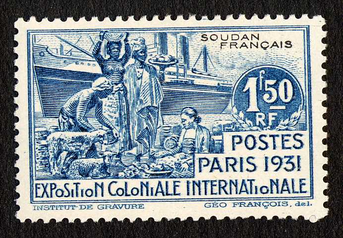 1931 postage stamp of French Sudan